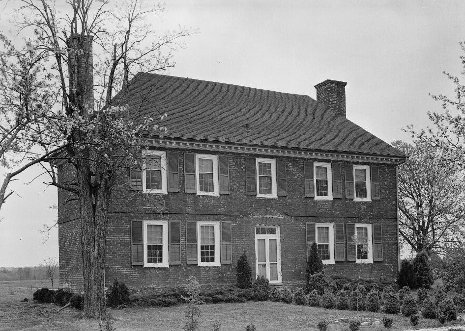 Indian Banks, State Route 606, Tidewater vicinity (Richmond County, Virginia) cropped, HABS VA,80-SIMO,1-3 This file comes from the Historic American Buildings Survey (HABS), Historic American Engineering Record (HAER) or Historic American Landscapes Survey (HALS). These are programs of the National Park Service established for the purpose of documenting historic places. Records consist of measured drawings, archival photographs, and written reports. When reusing please credit: Library of Congress, Prints & Photographs Division, VA-74 This tag does not indicate the copyright status of the attached work. A normal copyright tag is still required. See Commons:Licensing for more information. This work is in the public domain in the United States because it is a work prepared by an officer or employee of the United States Government as part of that person’s official duties under the terms of Title 17, Chapter 1, Section 105 of the US Code. See Copyright. Note: This only applies to original works of the Federal Government and not to the work of any individual U.S. state, territory, commonwealth, county, municipality, or any other subdivision. This template also does not apply to postage stamp designs published by the United States Postal Service since 1978. (See § 313.6(C)(1) of Compendium of U.S. Copyright Office Practices). It also does not apply to certain US coins; see The US Mint Terms of Use. This file has been identified as being free of known restrictions under copyright law, including all related and neighboring rights.